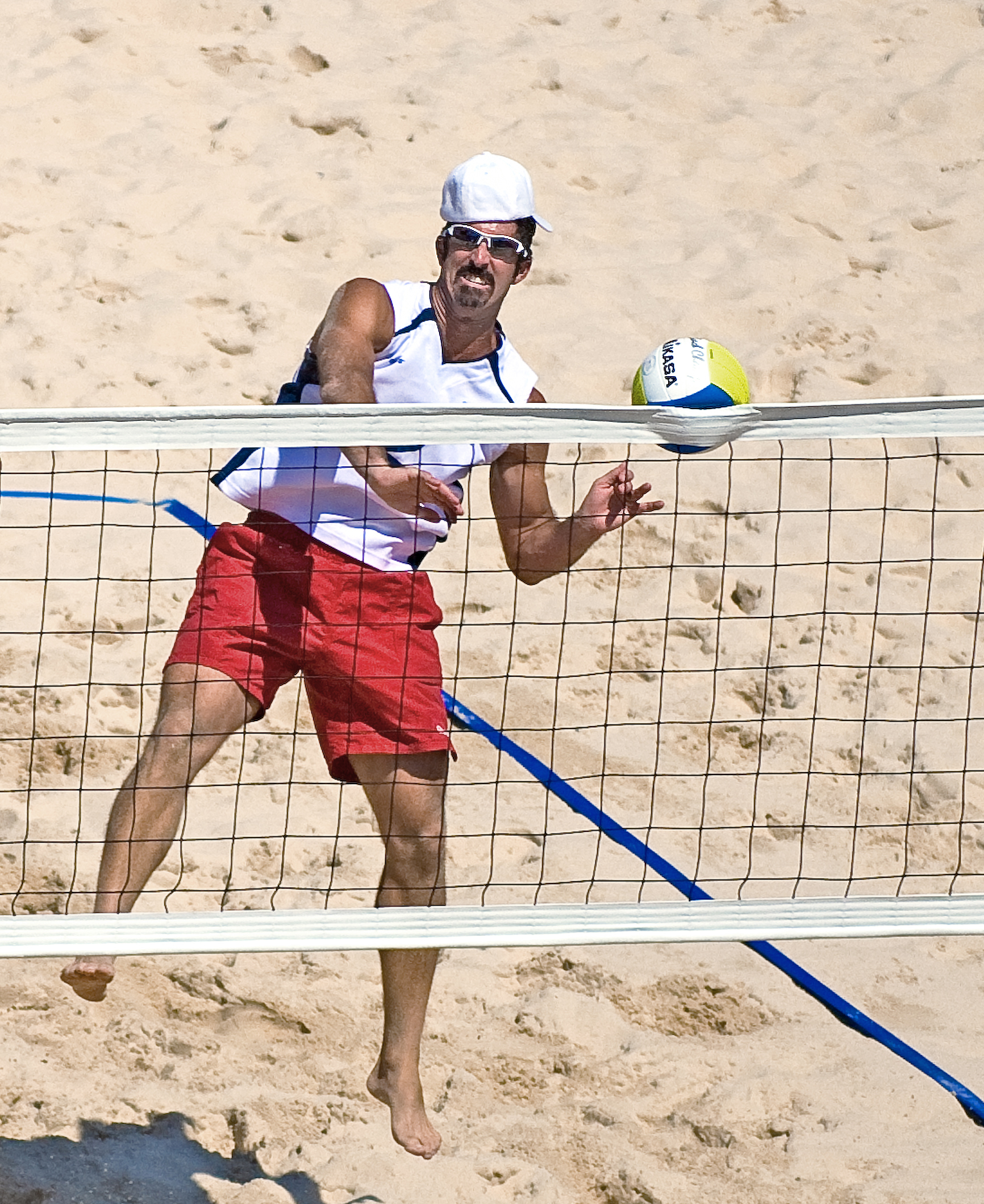 Todd Rogers of Team USA spikes the ball into the net during the gold medal match against Brazil at the Beijing Olympics.